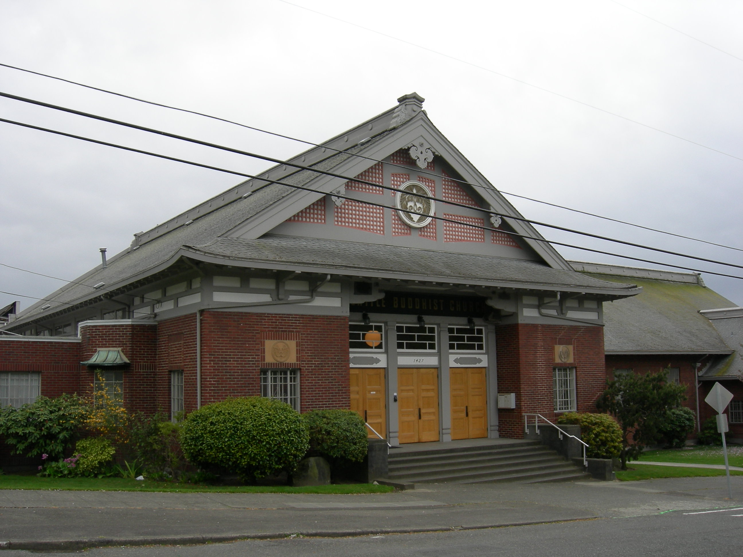 Seattle Buddhist Church, on the eastern edge of the International District, Seattle, Washington (or the western edge of the Central District), Seattle, Washington, on the south side of Wisteria Park.